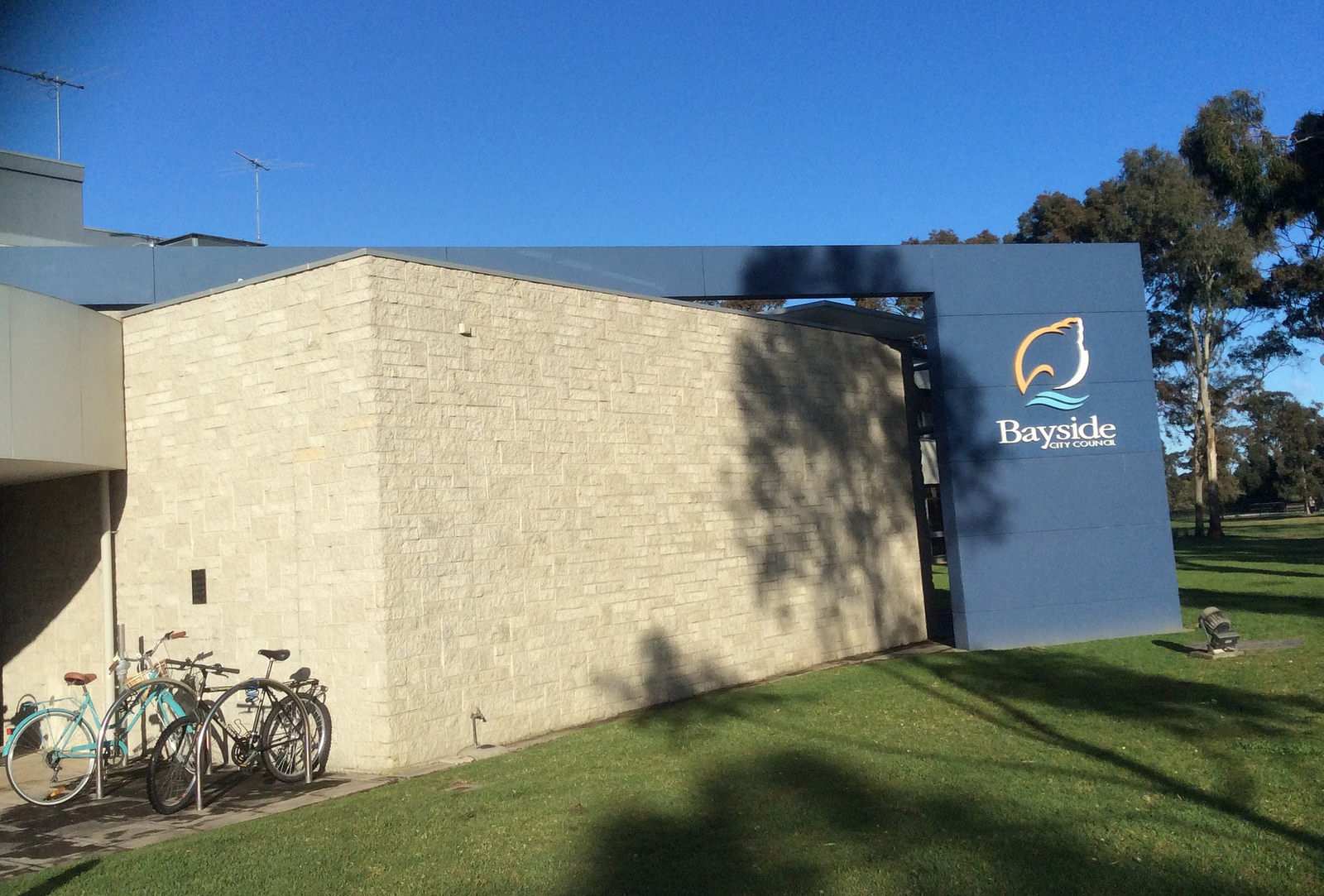 Side of the Reception area building at Bayside City Council, Royal Avenue, Sandringham, Victoria, Australia